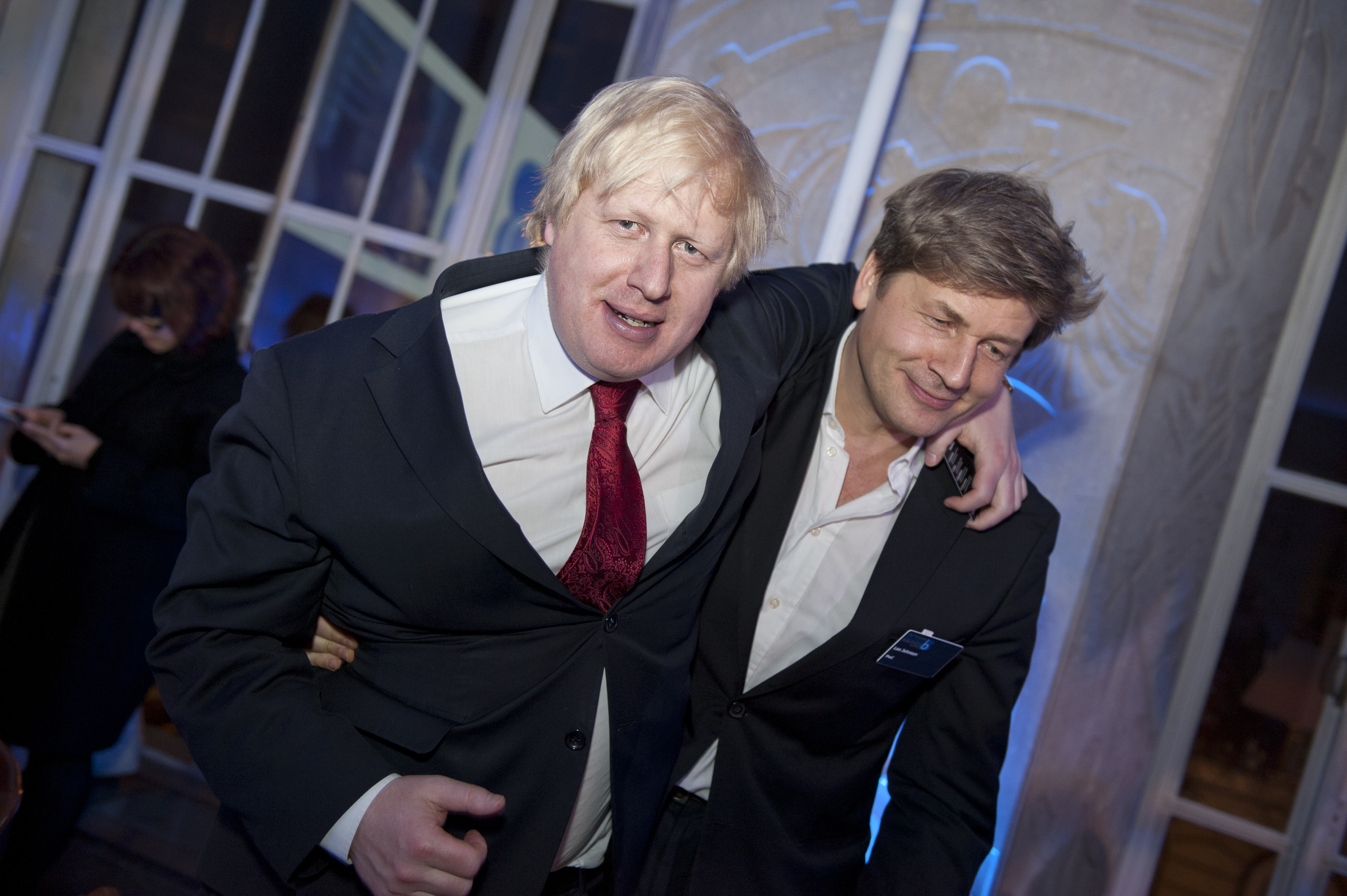 Boris Johnson and Leo Johnson attend the Boldness in Business Awards 2013